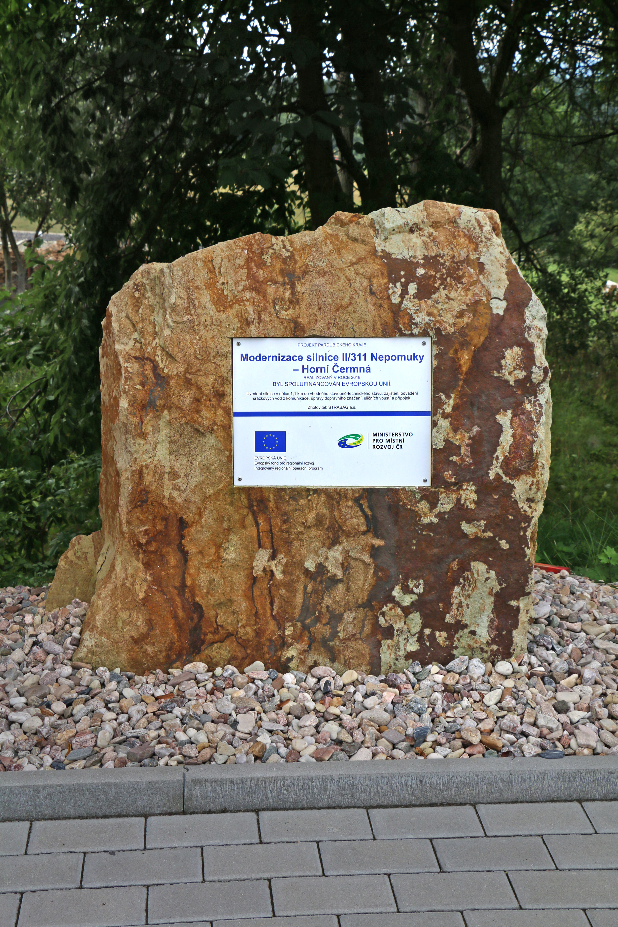 Road No 311, memorial stone, Horní Čermná, Czech Republic.